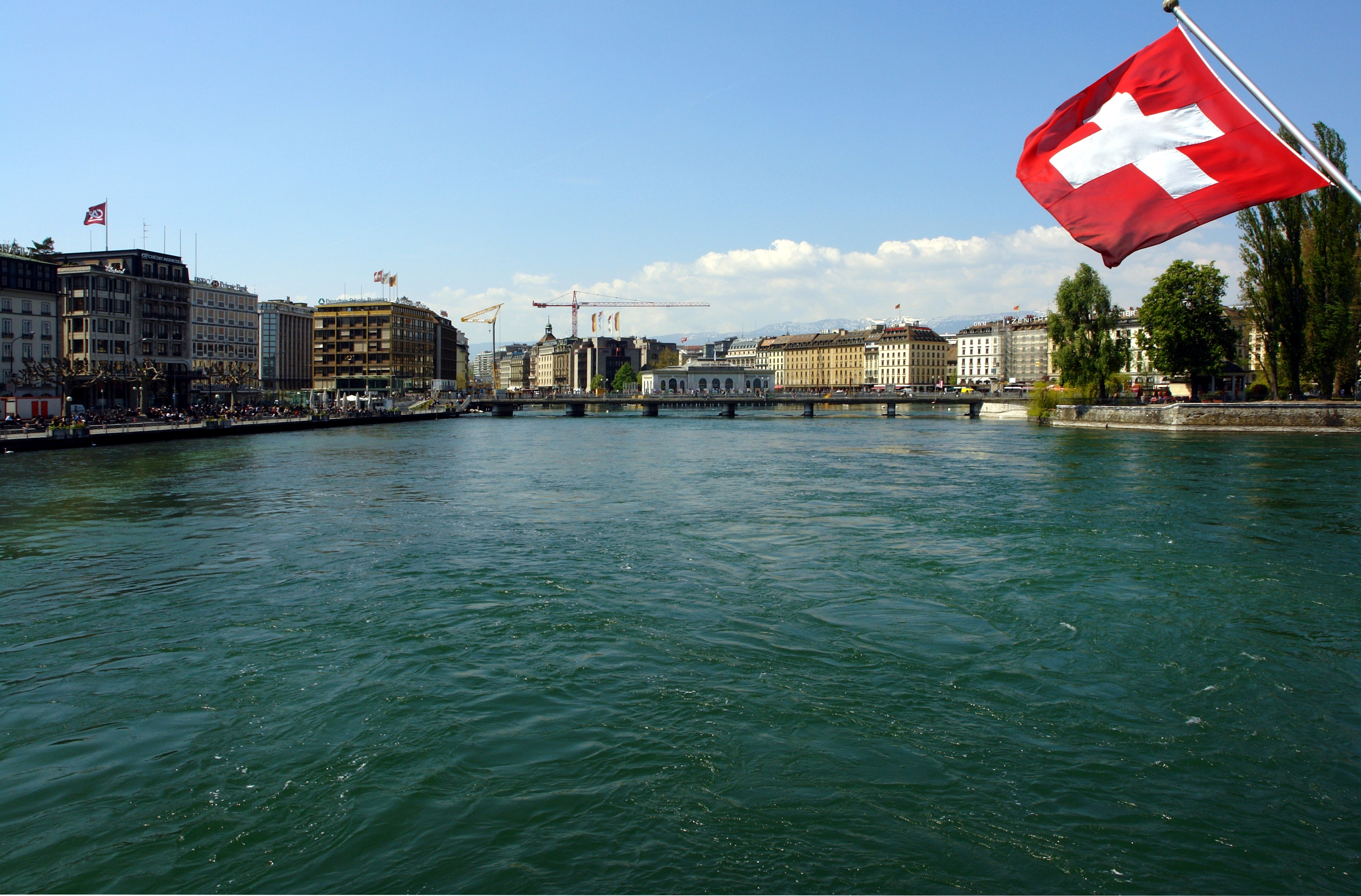 Rhône river in Geneva.